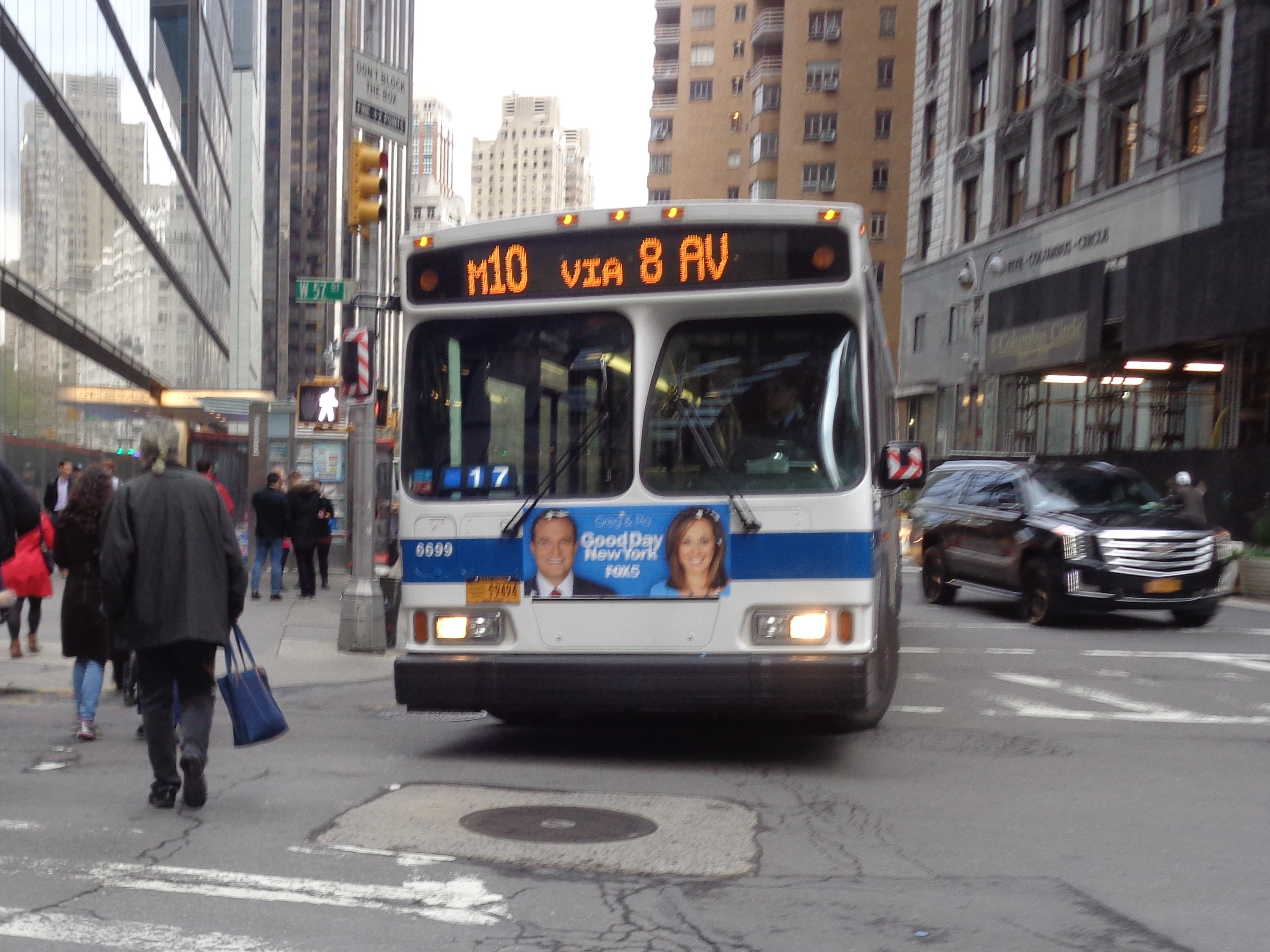 An M10 bus at Broadway and West 57th Street in Midtown Manhattan, just south of Columbus Circle.